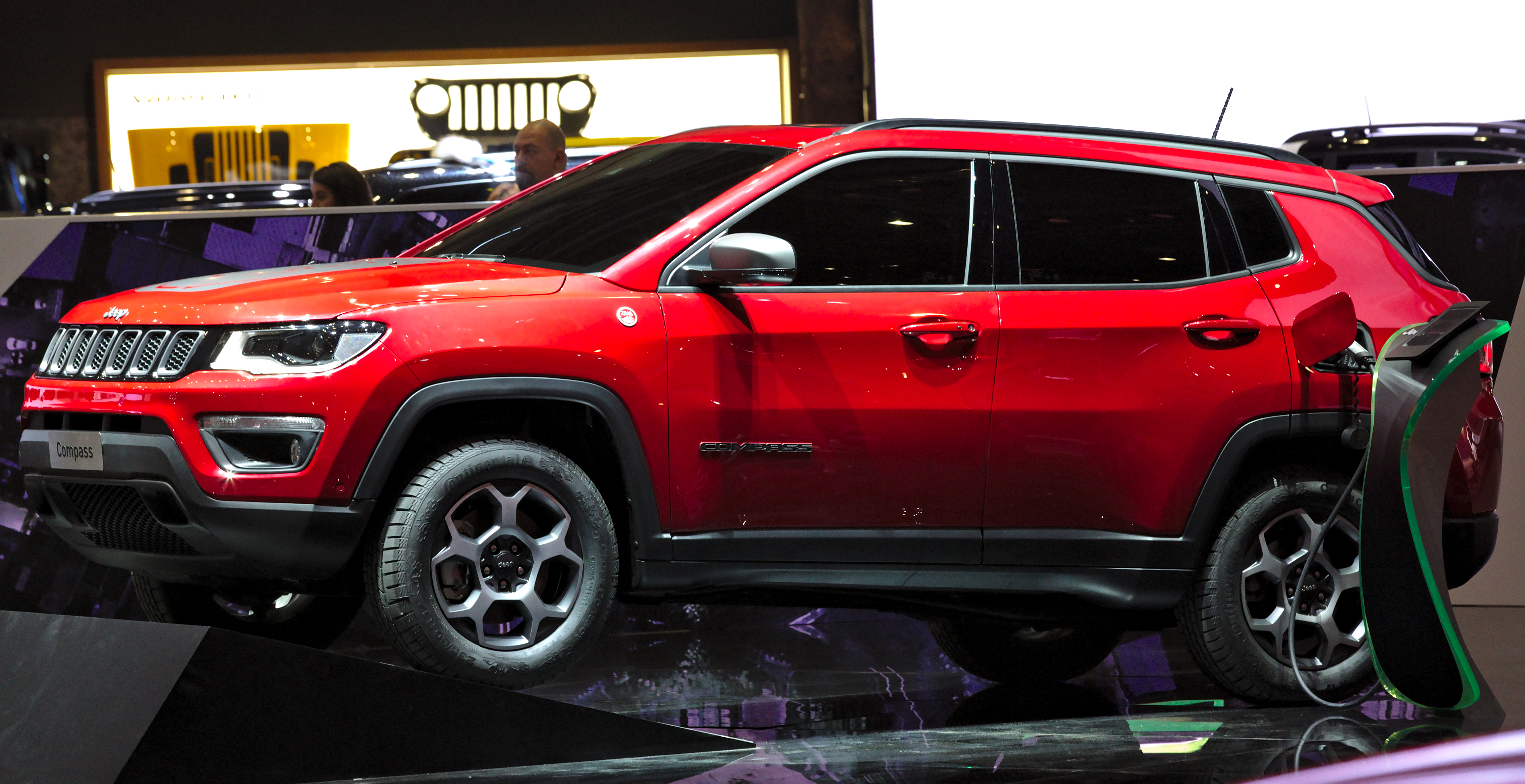 Jeep Compass PHEV at Geneva Motor Show 2019